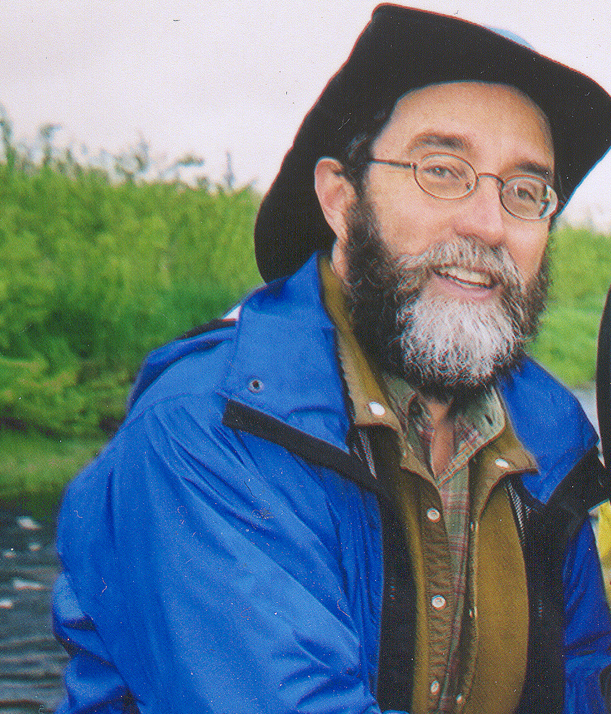 Ram Myers